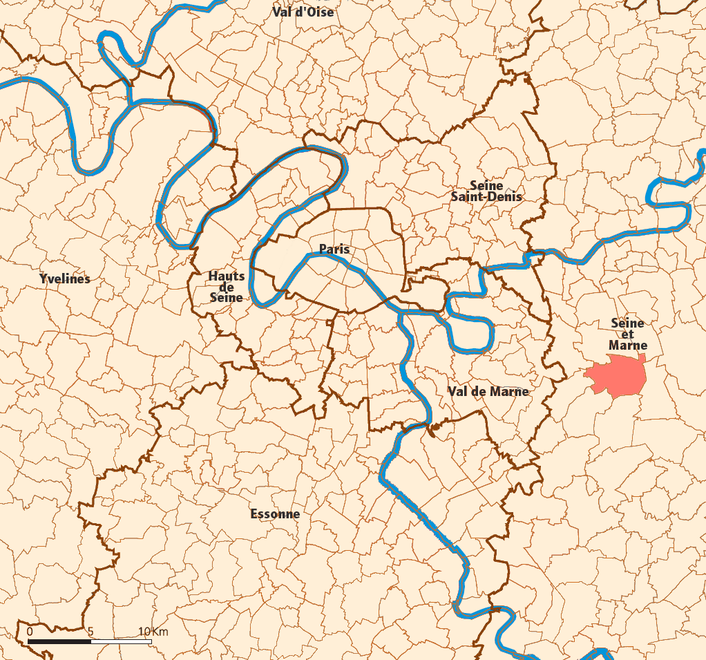 Created map myself